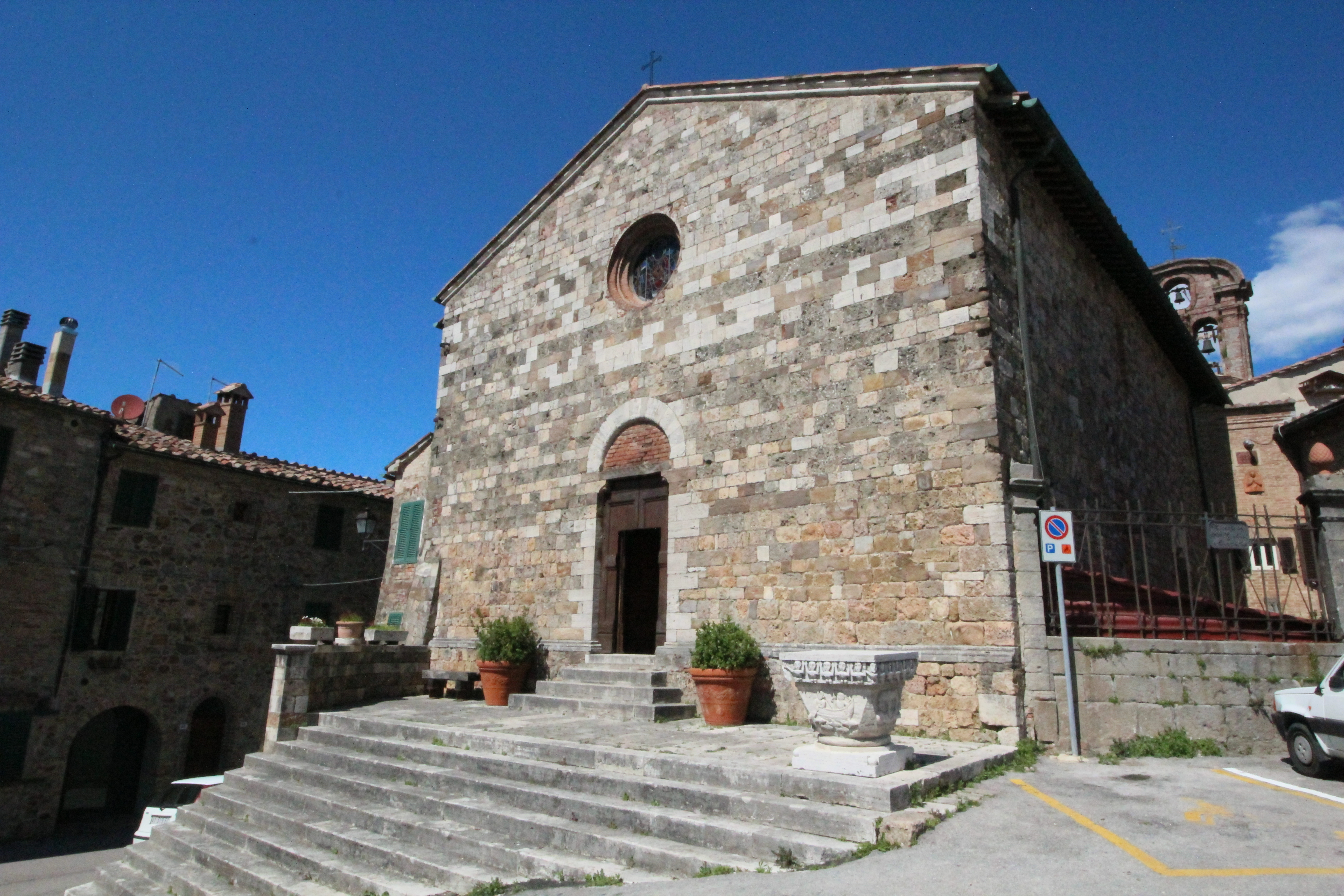 Church Chiesa dei Santi Giusto e Clemente, city center of Monticiano, Province of Siena, Tuscany, Italy